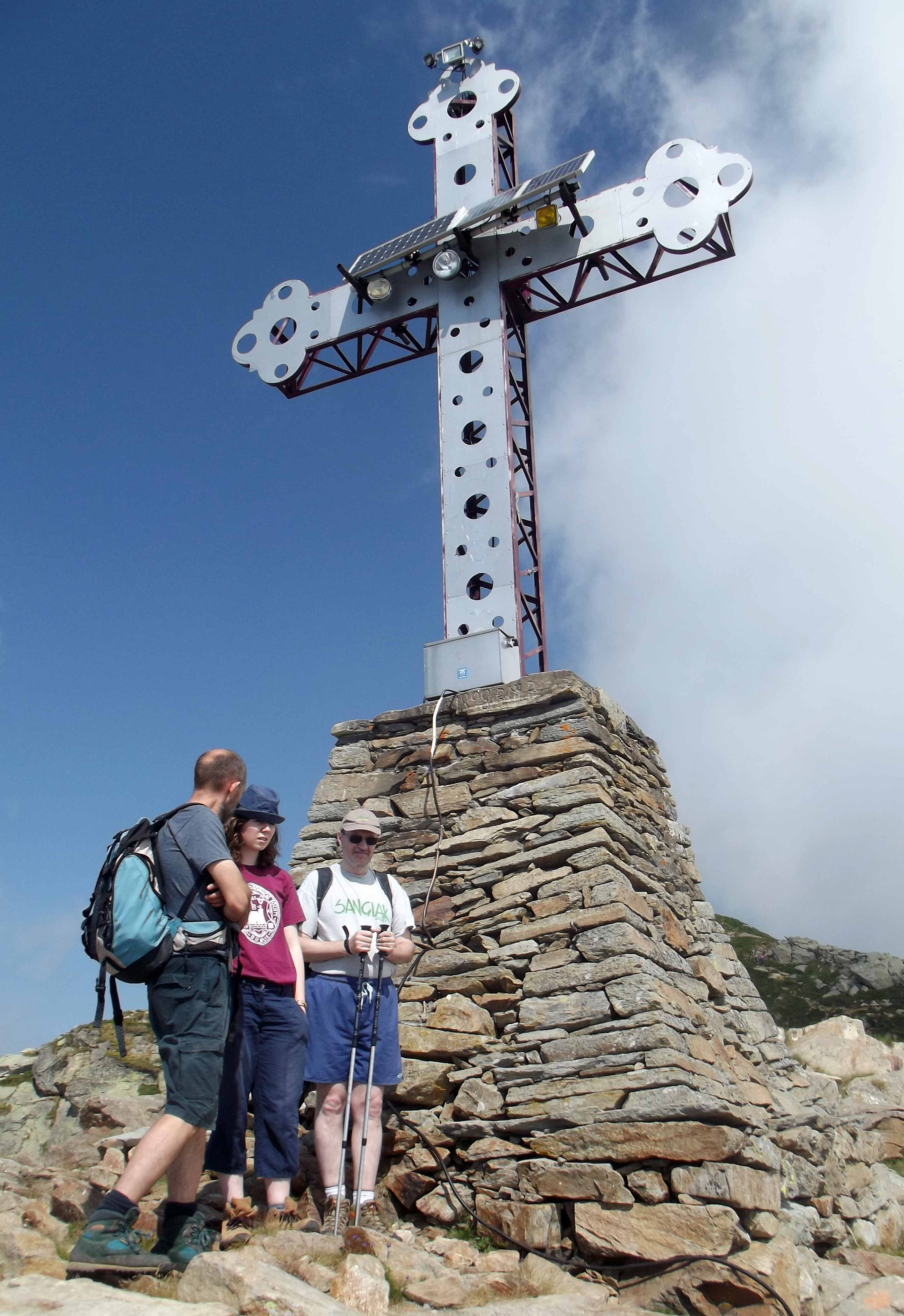 Monte Mucrone (Alpi Biellesi, Italy): summit cross